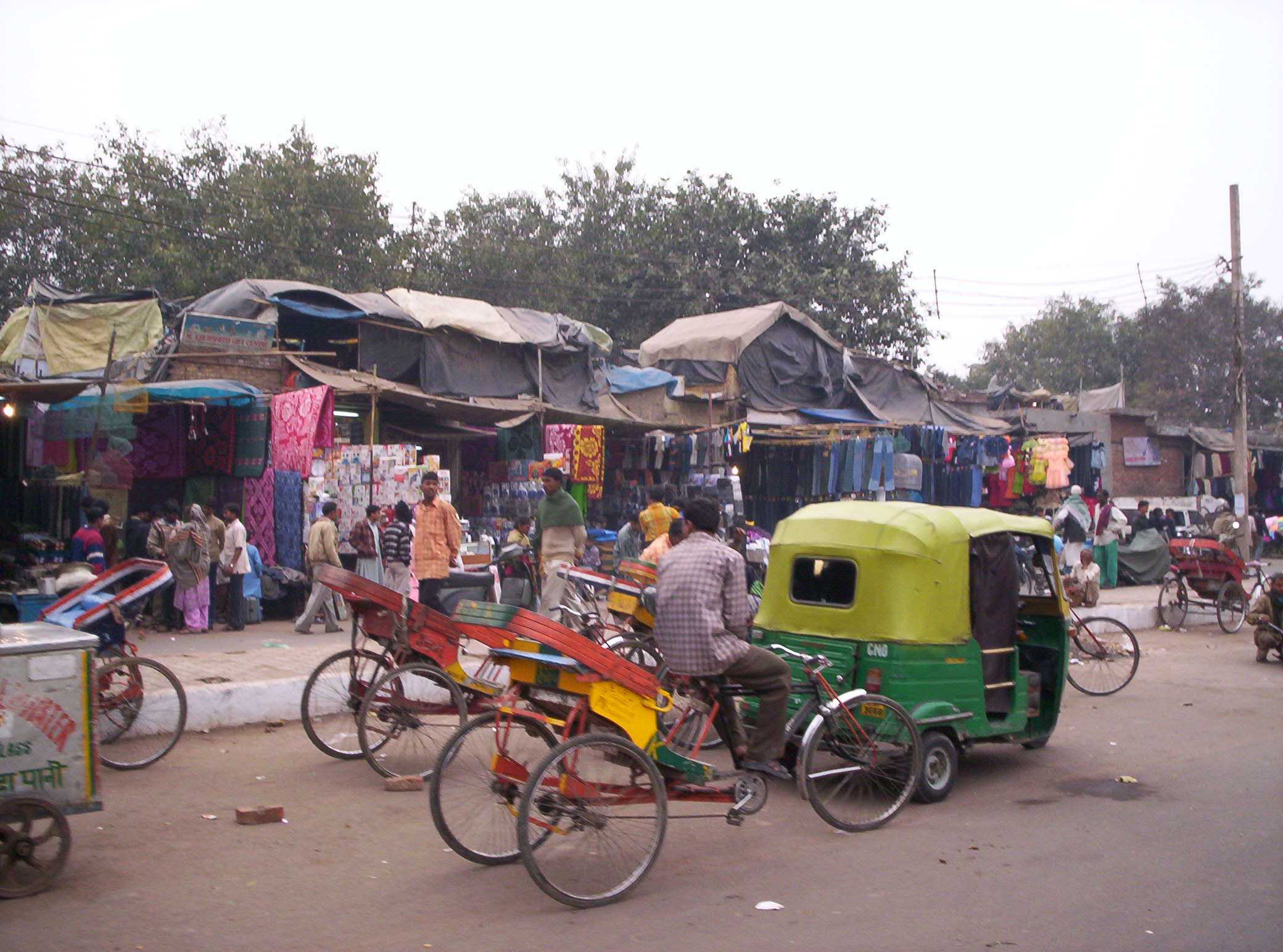 Several rickshaws and an autorickshaw in Delhi.